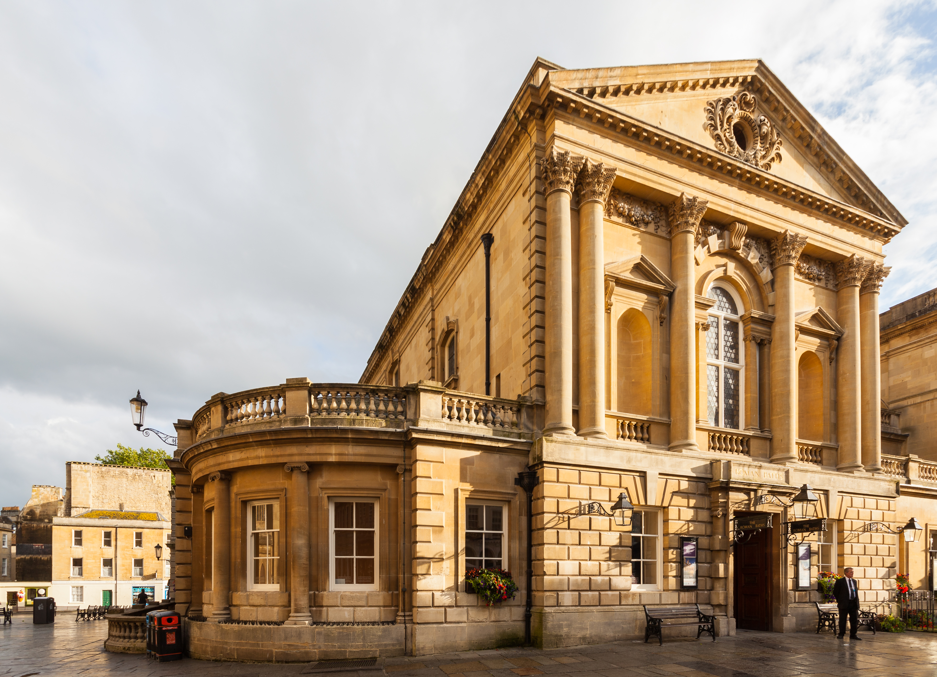 Grand Pump, Roman Baths, Bath, England